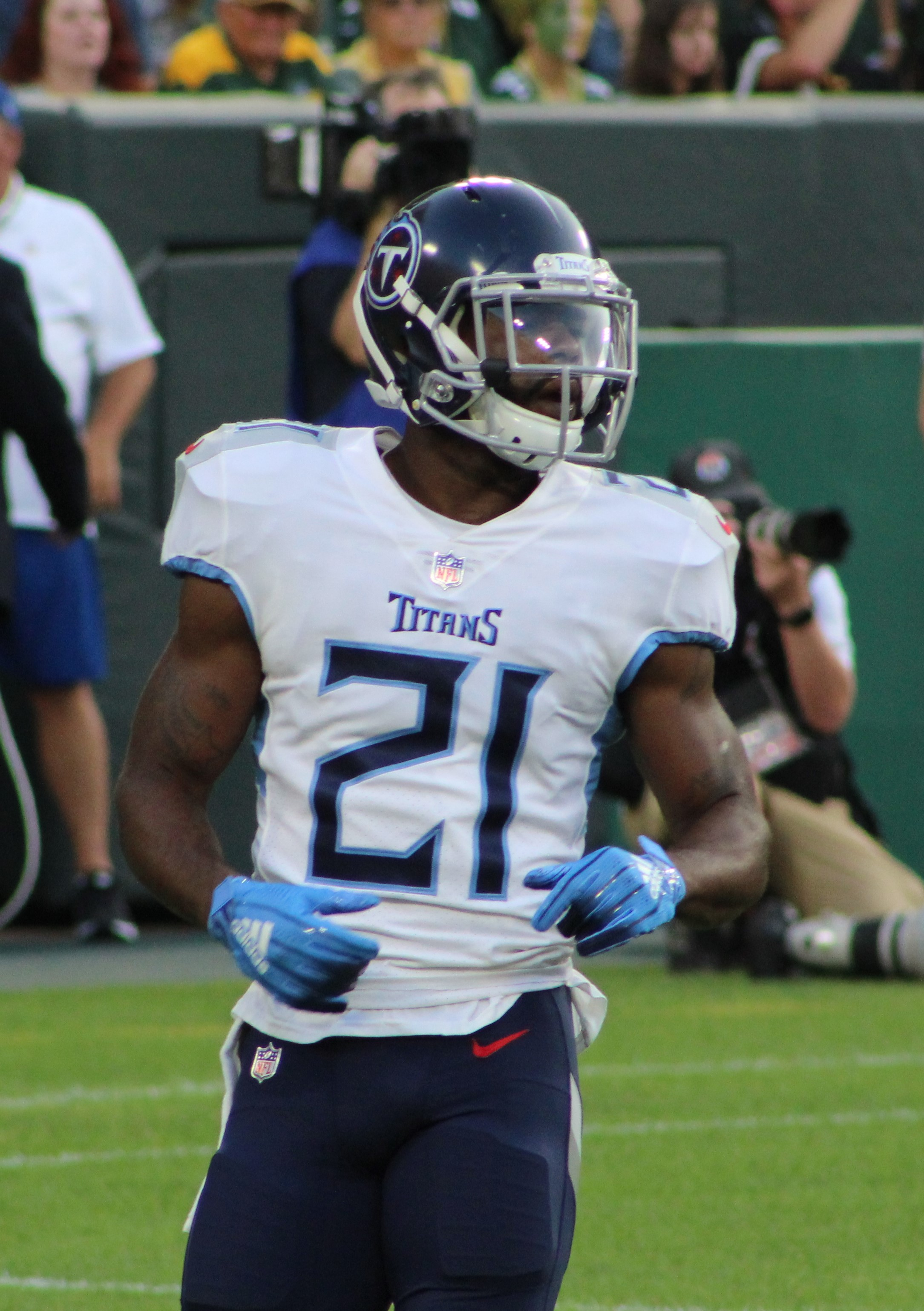 Malcolm Butler, Tennessee Titans at Green Bay Packers (Preseason), August 9, 2018